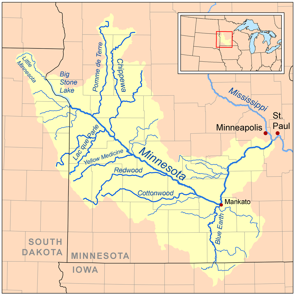 Map of the Minnesota River watershed — primarily within Minnesota.